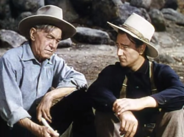 Harry Carey (left) and John Wayne in The Shepherd of the Hills (1941) - trailer (cropped screenshot)